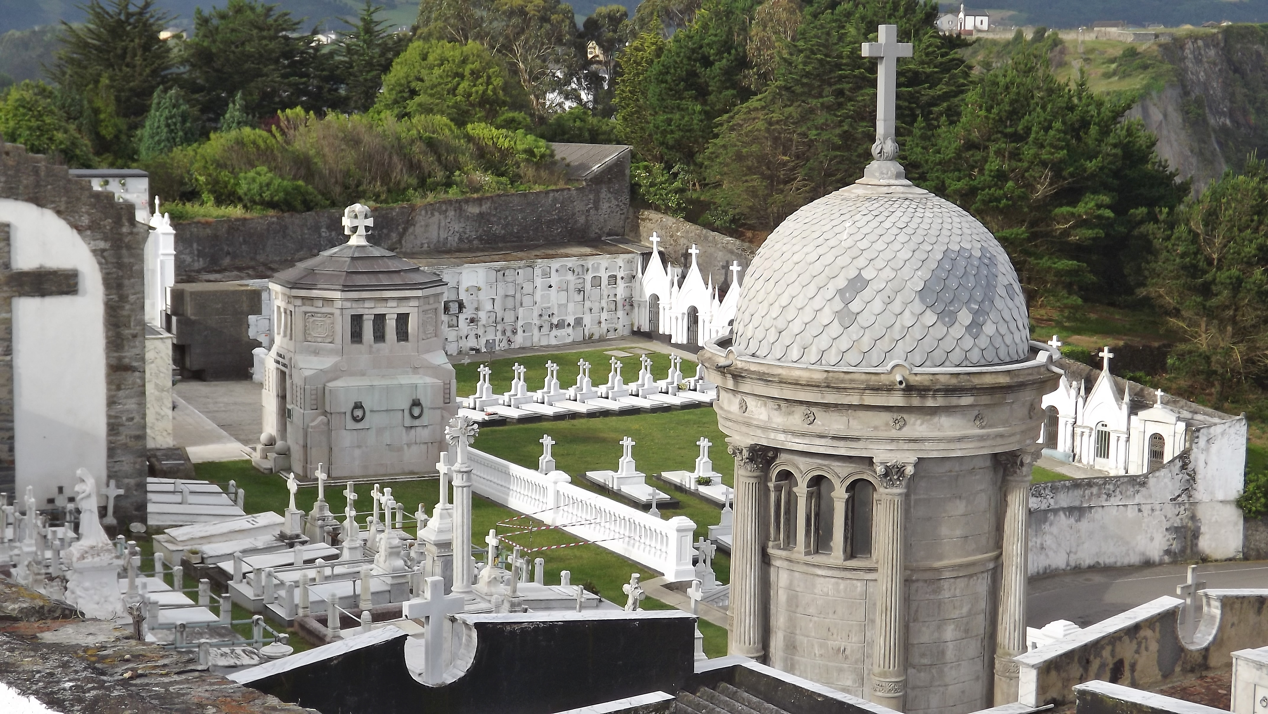 Luarca